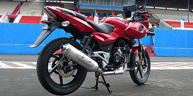 Pulsar 220 Indonesian Version